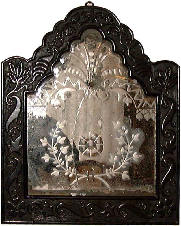 Original mirror from the glass factory Spiegelberg (18th century)